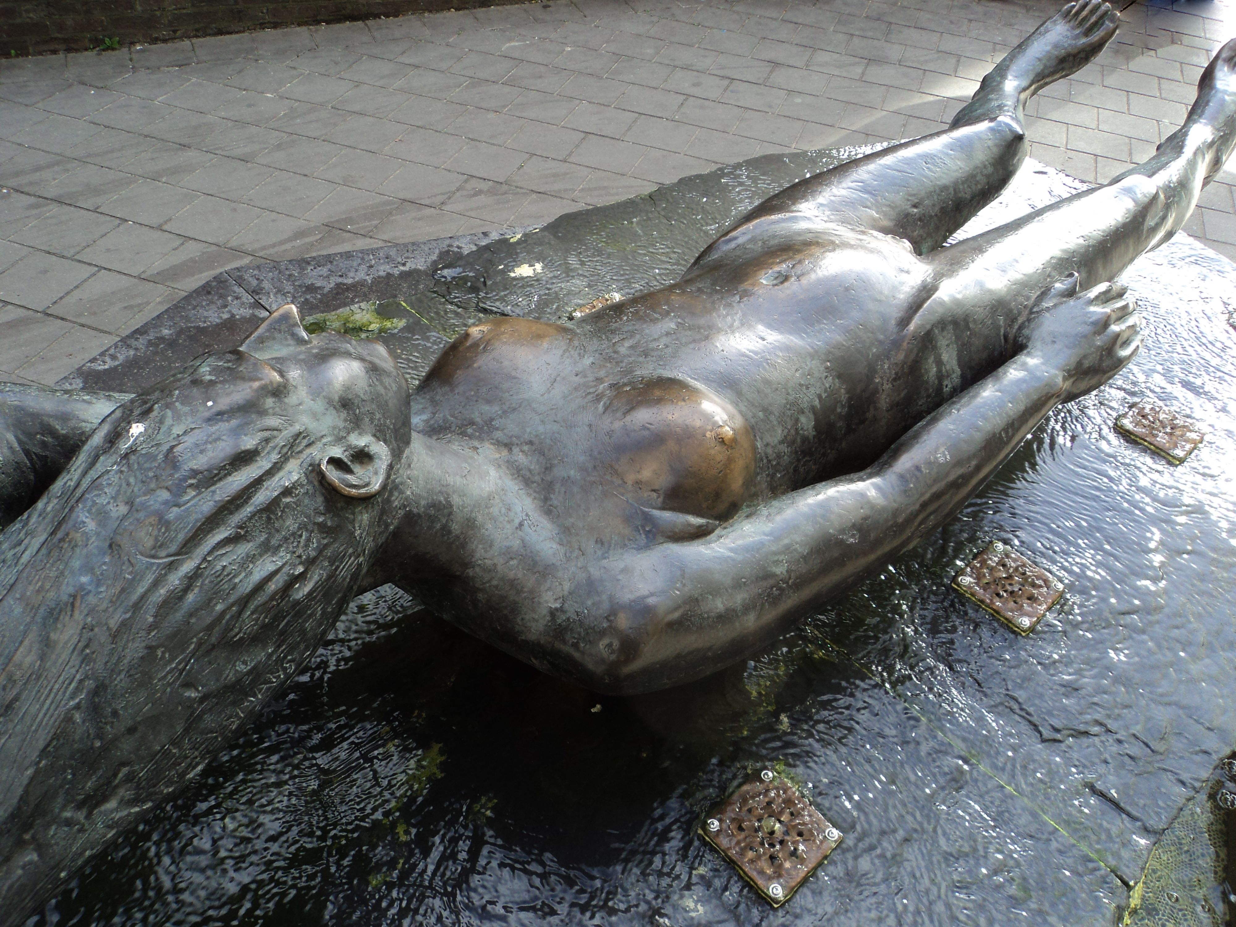 Statue of Proud Margriet, Leuven, Belgium